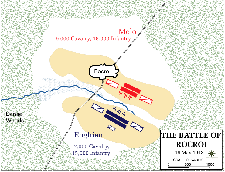 Map showing the Battle of Rocroi (May, 19th 1643)